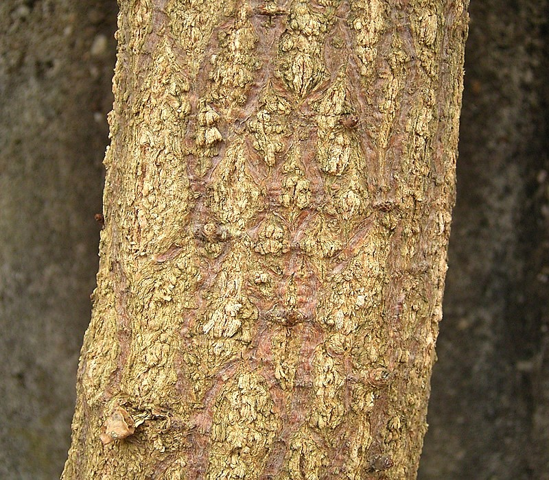 Erythrina atitlanensis